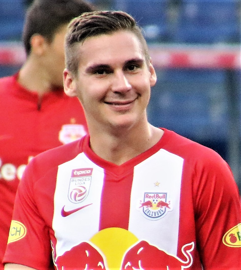 Association football defender (FC Red Bull Salzburg)